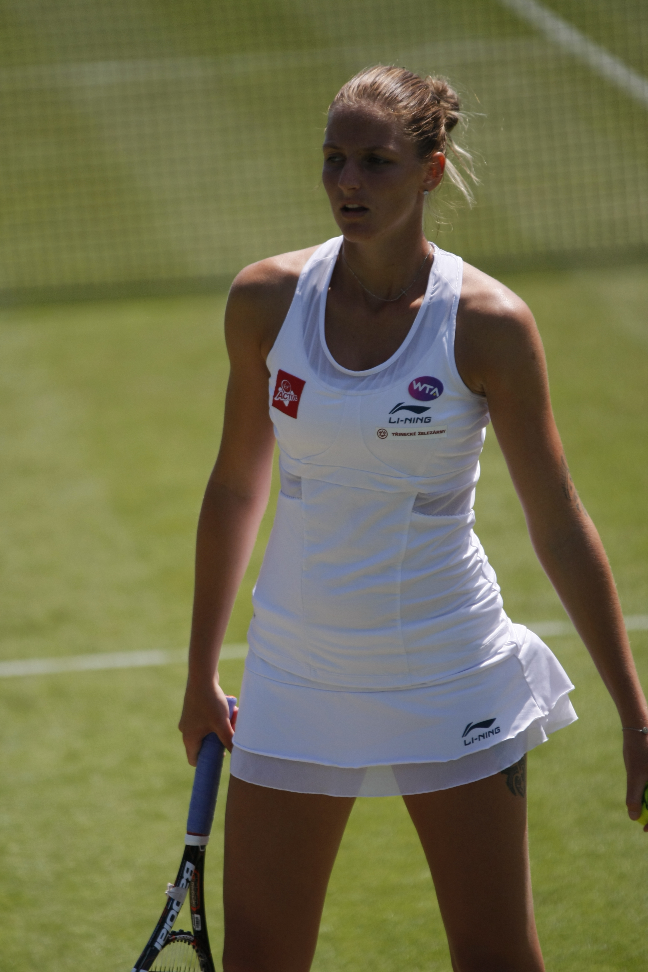 Aegon International Tennis, Devonshire Park, Eastbourne June 2015